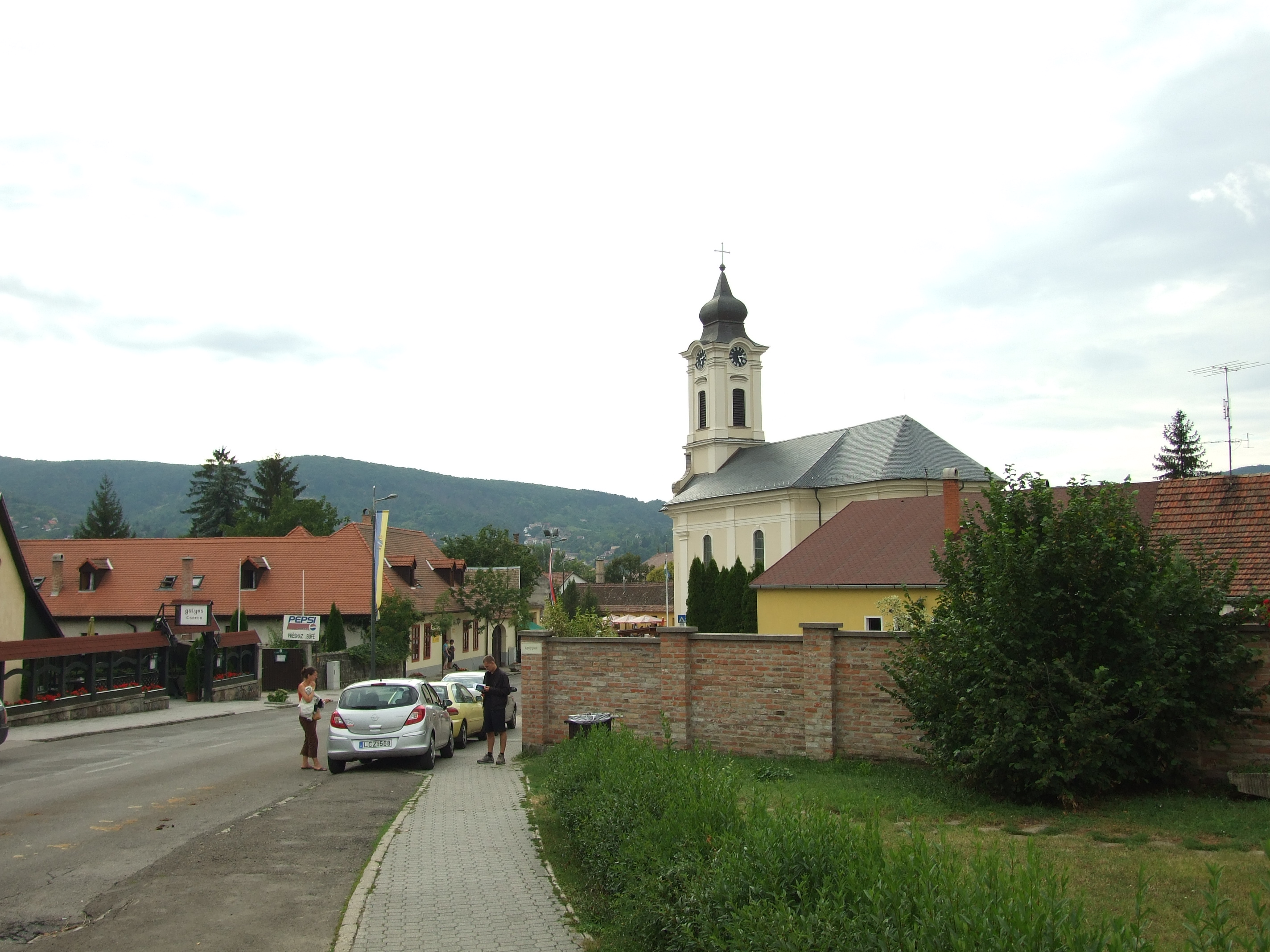 Town of Visegrád, Pest comitat, Hungaryhelp